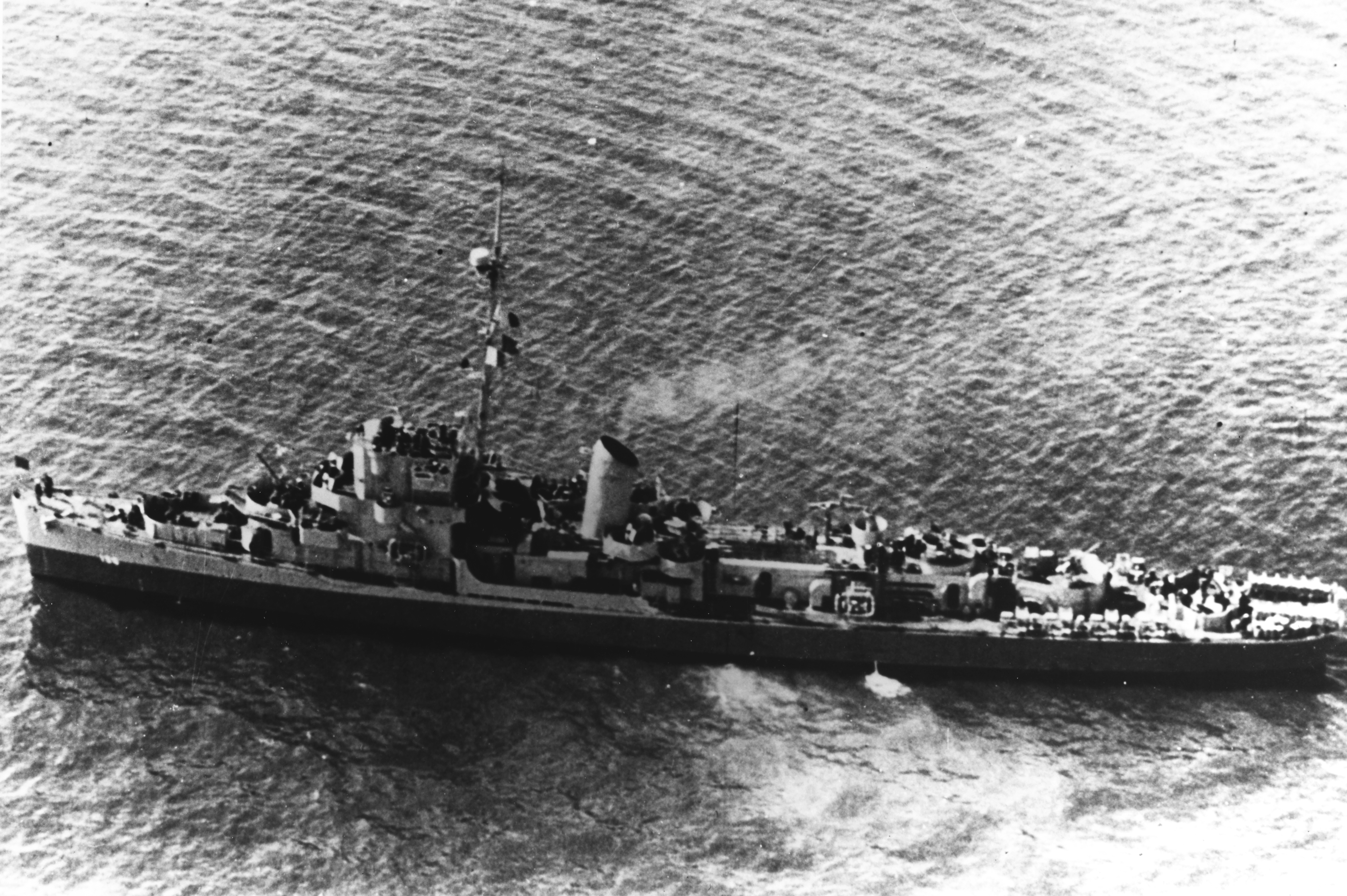 The U.S. Navy destroyer escort USS Frederick C. Davis (DE-136) with steam up, but not underway (note jack flying at the bow).